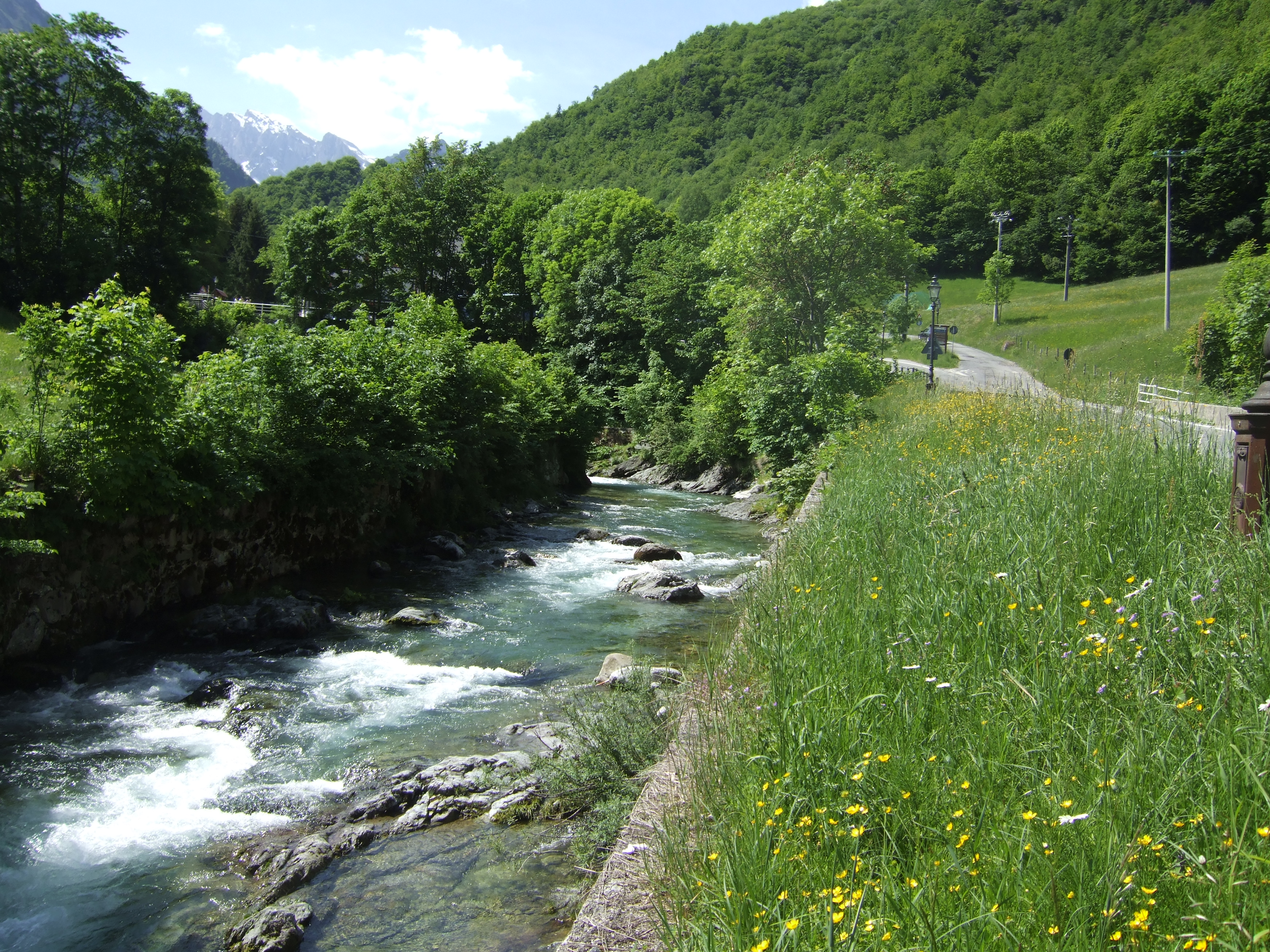 River Pesio nearby the Chartreuse of Pesio